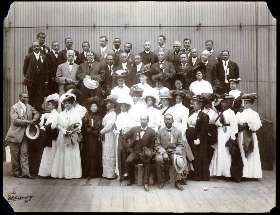 original caption - Group portrait of the delegates to the Niagara Movement meeting in Boston, Massachusetts in 1907;W. E. B. Du Bois is seated in front row, next to him is Clement G. Morgan. citation - Chickerings, E.. Niagara Movement delegates, Boston, Mass., 1907. W. E. B. Du Bois Papers (MS 312). Special Collections and University Archives, University of Massachusetts Amherst Libraries